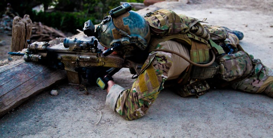 A Ranger from 1st Battalion, 75th Ranger Regiment, scans for insurgent fighters during a combat operation in Paktiya Province, Afghanistan, April 17, 2013. (U.S. Army photo by Spc. Codie M. Mendenhall)